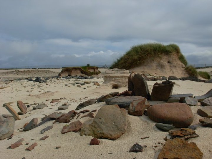 Looking south east at the central area of the Links of Noltland PIC.